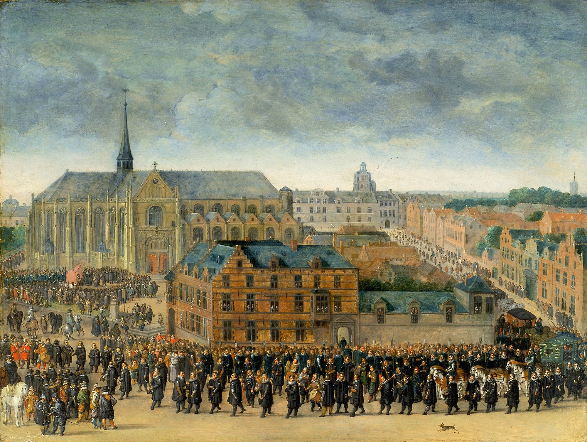 The Ommegang of Brussels on 31 May 1615. The Infanta Isabella shooting the Grand Serment bird with a crossbow at the Sablon in Brusselslabel QS:Len,"The Ommegang of Brussels on 31 May 1615. The Infanta Isabella shooting the Grand Serment bird with a crossbow at the Sablon in Brussels" label QS:Lfr,"L'Ommegang de Bruxelles le 31 mai 1615. "L'Infante Isabelle tire l'oiseau du Grand Serment avec une arbalète au Sablon de Bruxelles""